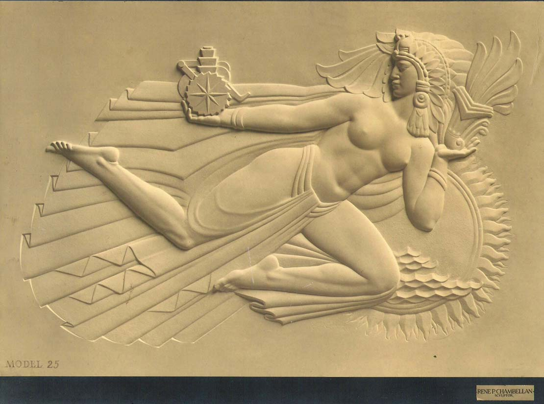 Mayan Revival relief by Rene Paul Chambellan. Sibbert's Mayan Revival Kress store on Fifth Avenue in New York City was built in 1935 and demolished in 1980.